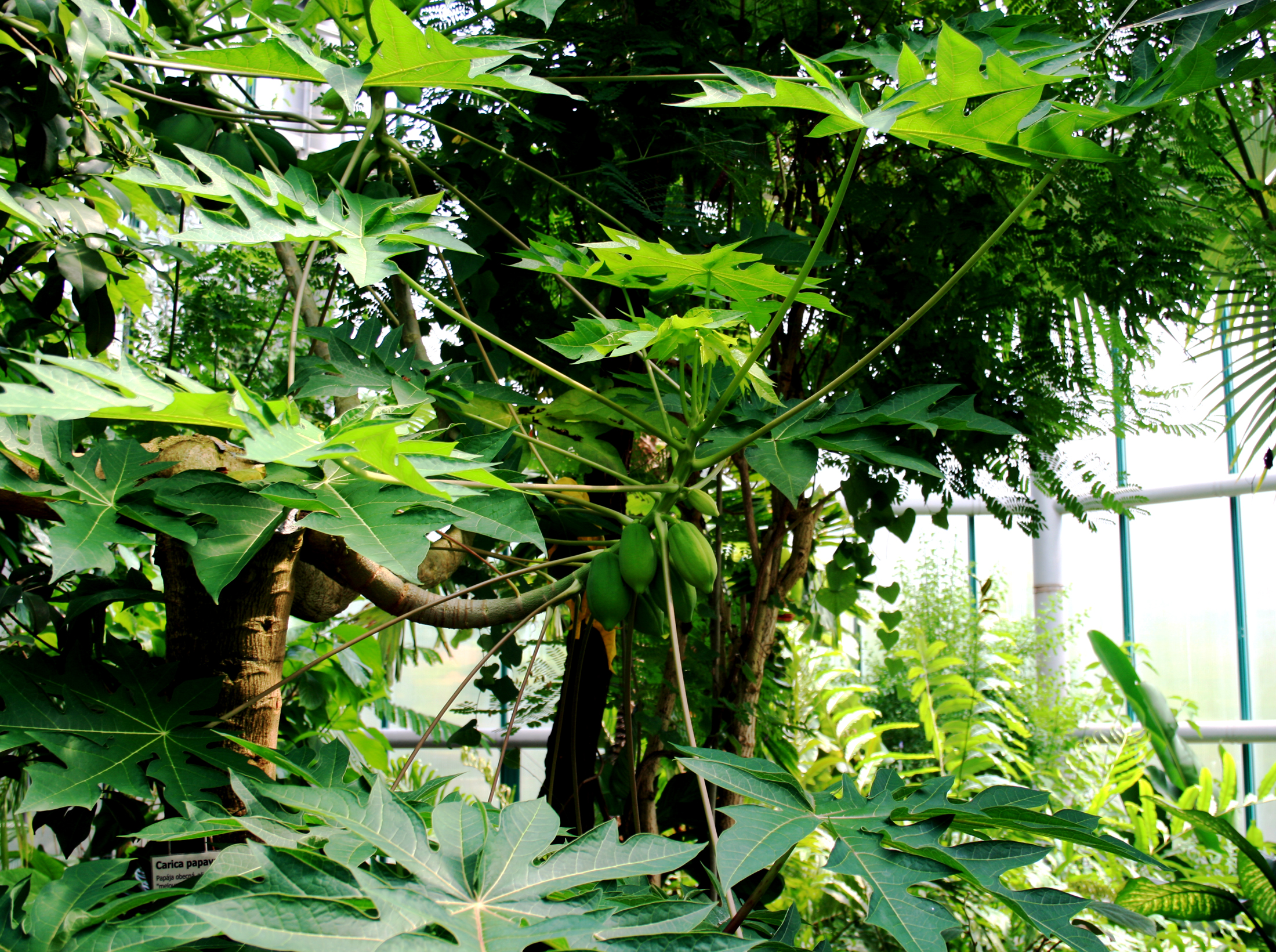 Tropical tree with fruits Carica papaya in Botanical Garden Liberec, Czech Republic